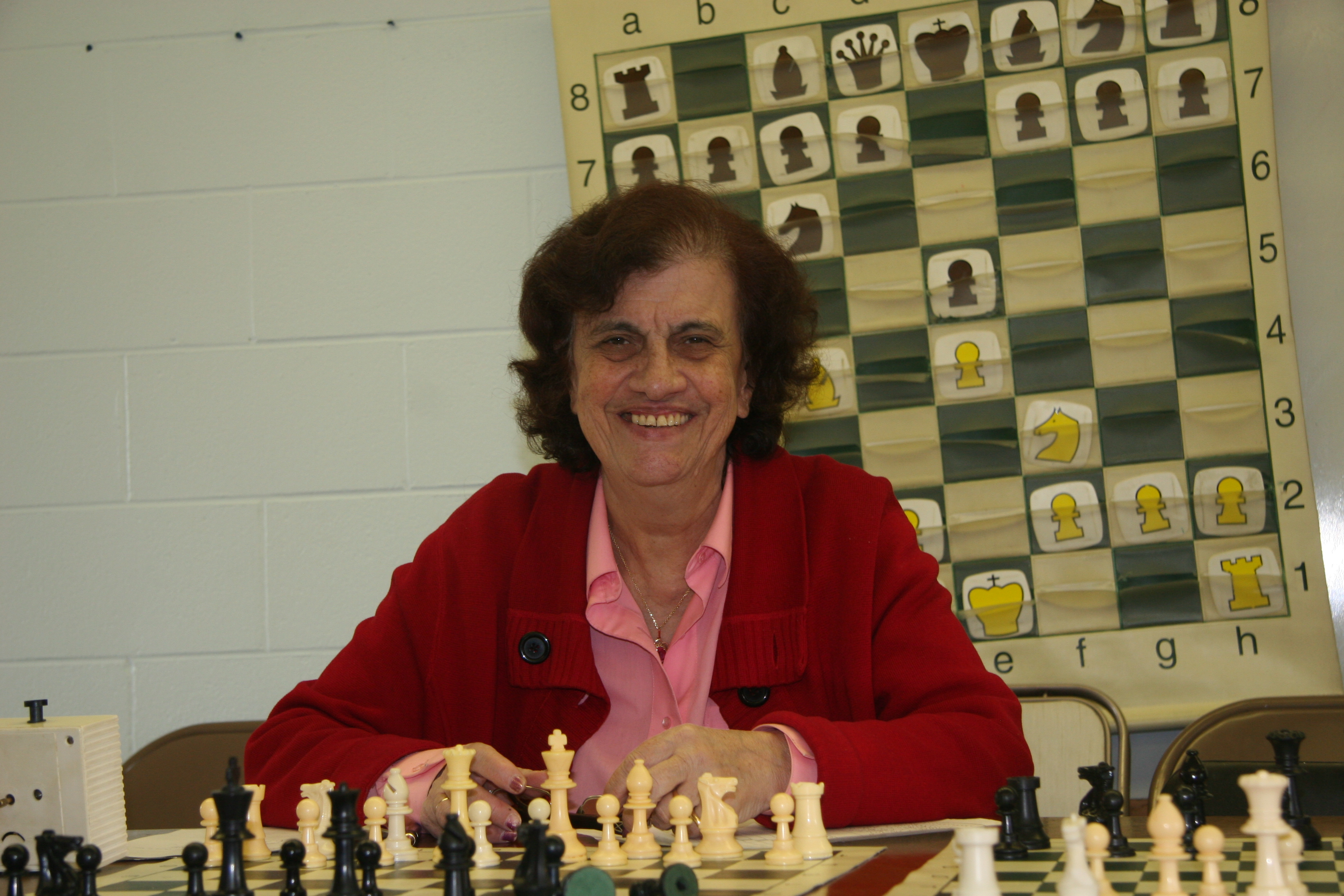 Tamara Golovey, March 2013